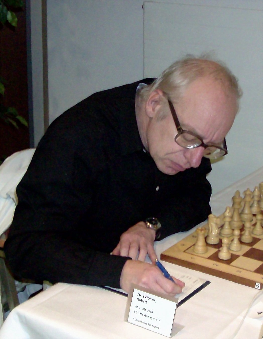 Dr. Robert Huebner, German chess grandmaster